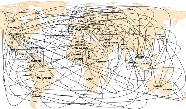 Illustrates nature of network of different IIAs